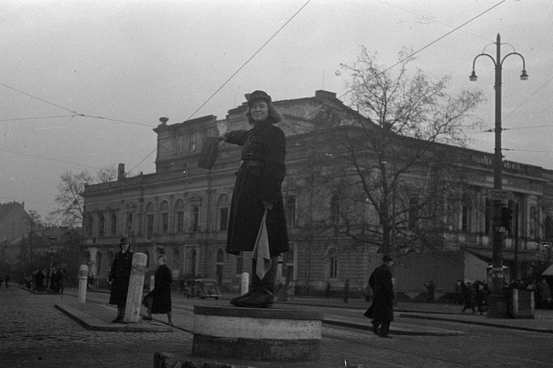 Original image description from the Deutsche FotothekSommer 1947